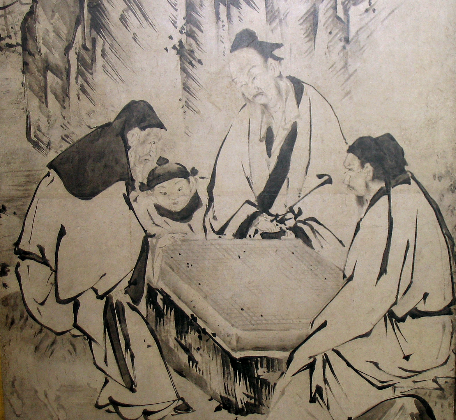 A screen painting depicting people of the Ming Dynasty playing Go, by Kanō Eitoku. (NB: The detail in this illustration comes from a pair of folding screens The Four Accomplishments that were originally attributed to Kanō Eitoku on the basis of seals that appear on each half of the pair. The screens, however, have been demonstrated by the art historian Takeda Tsuneo to be the work of Kaihō Yūshō, a painter who studied with the Kanō workshop). One of six folding screens: ink on paper. Shows people playing Go. Japan, Momoyama period, 16th century. On exhibit at the Sackler Gallery at the Smithsonian Institution.